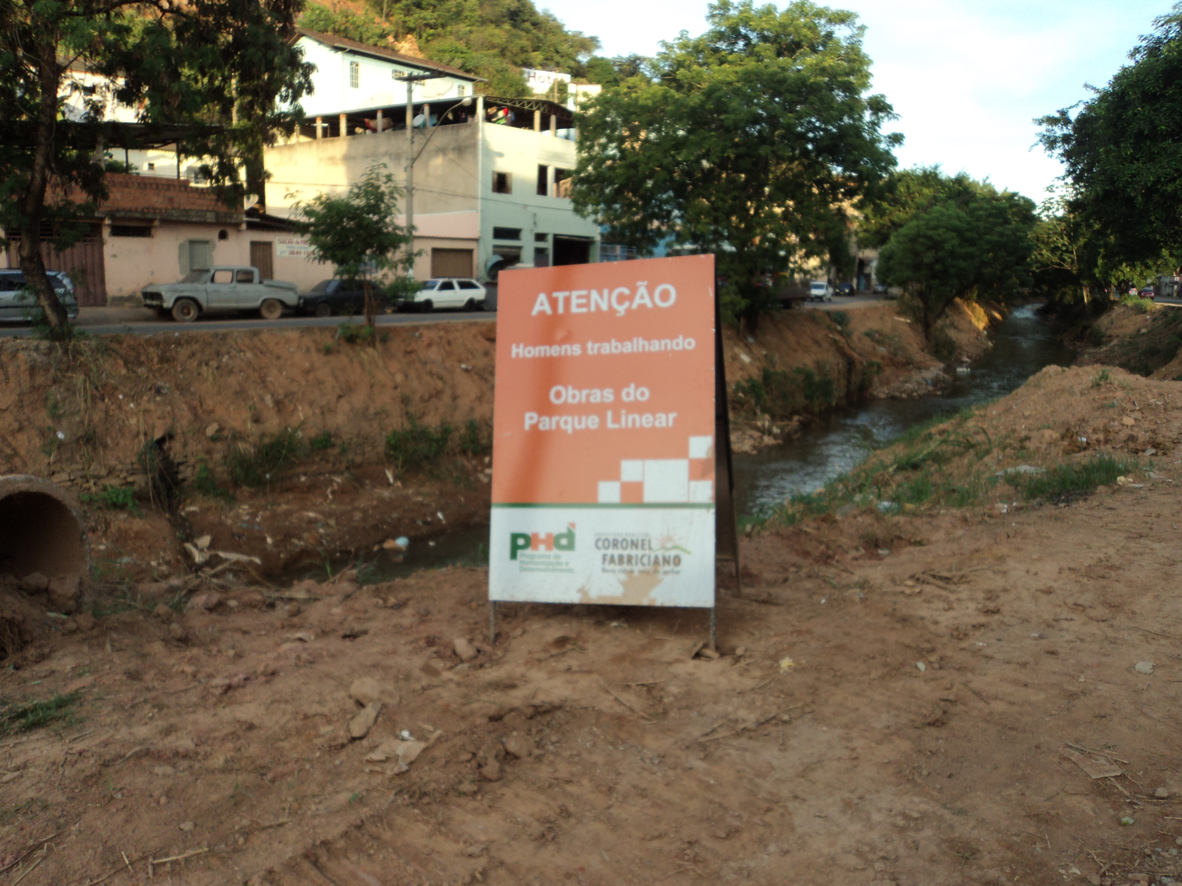 Works of "Parque Linear do Córrego Caladão" in the Professores Neighborhood, in Coronel Fabriciano, Minas Gerais, Brazil.